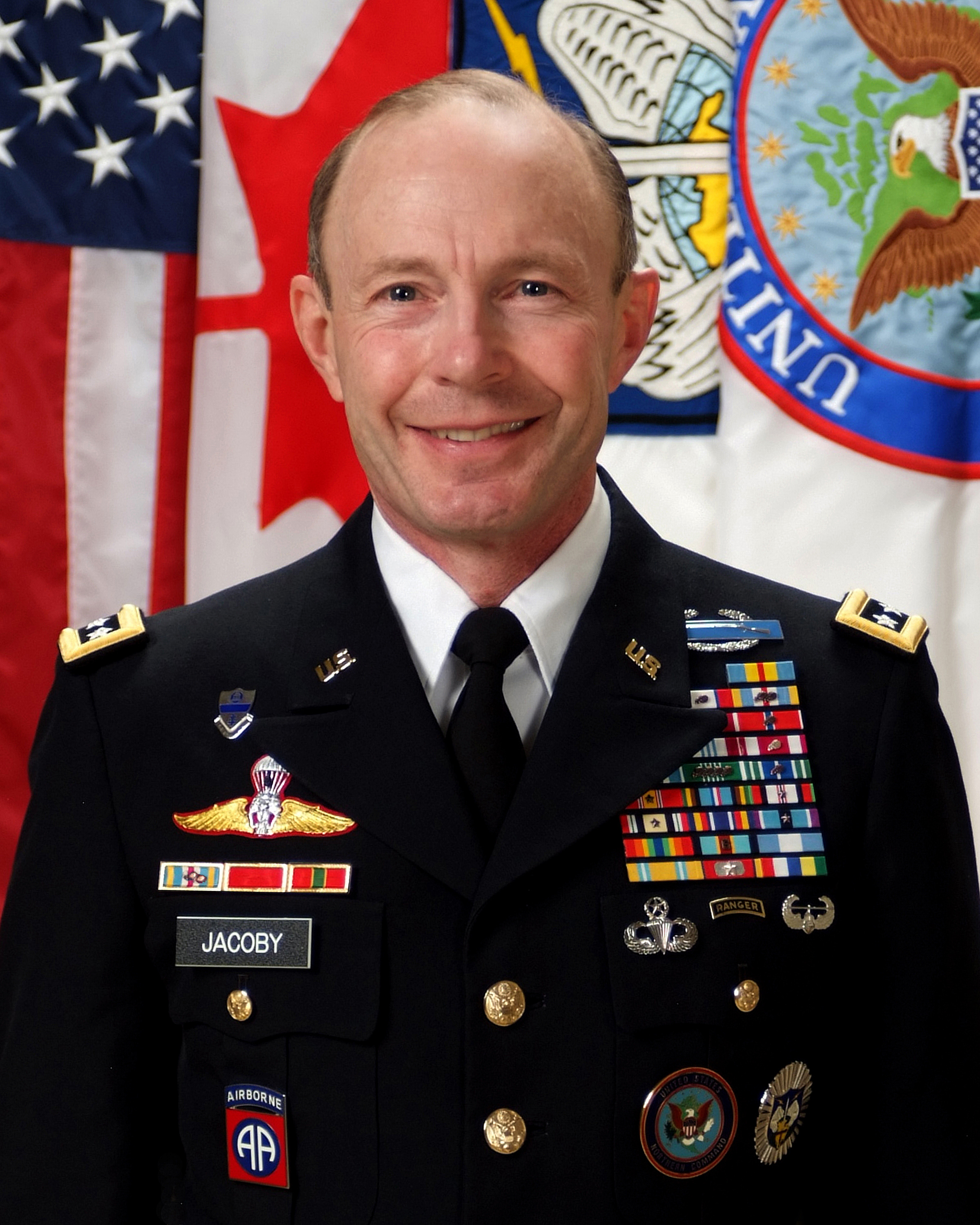 Commander, USNORTHCOM and NORAD